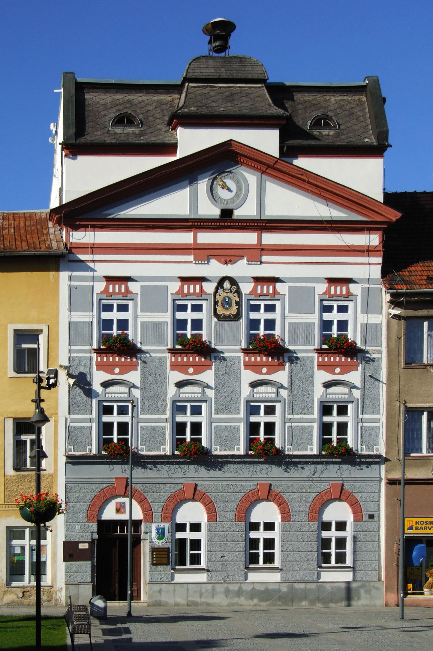 Zlaté Hory (Zuckmantel) - town hall